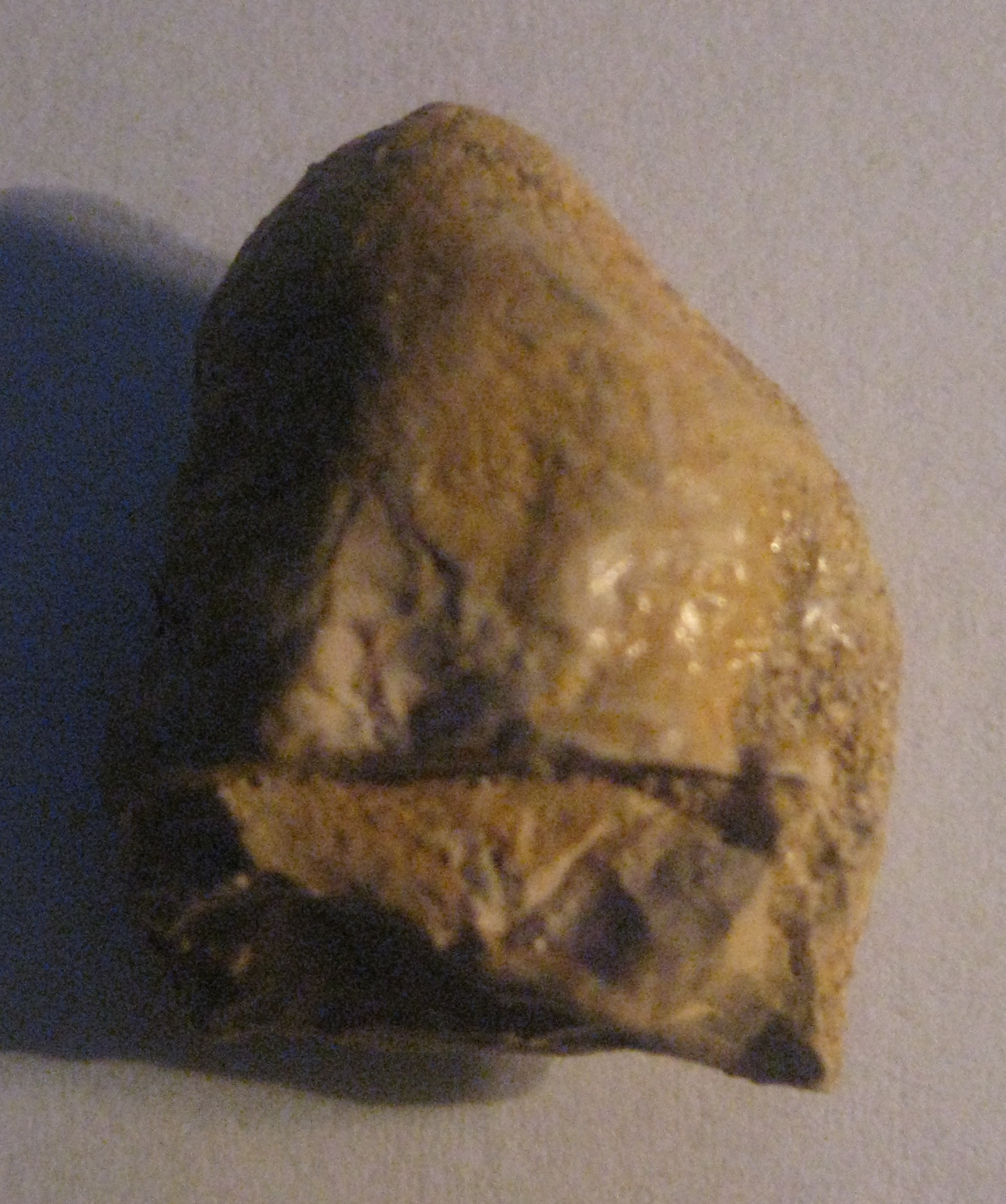 Tooth of unident. dino. My collection